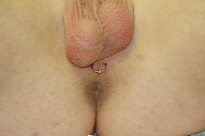 Guiche Piercing, by Tommy T's Body Piercing, Huntington Beach, California